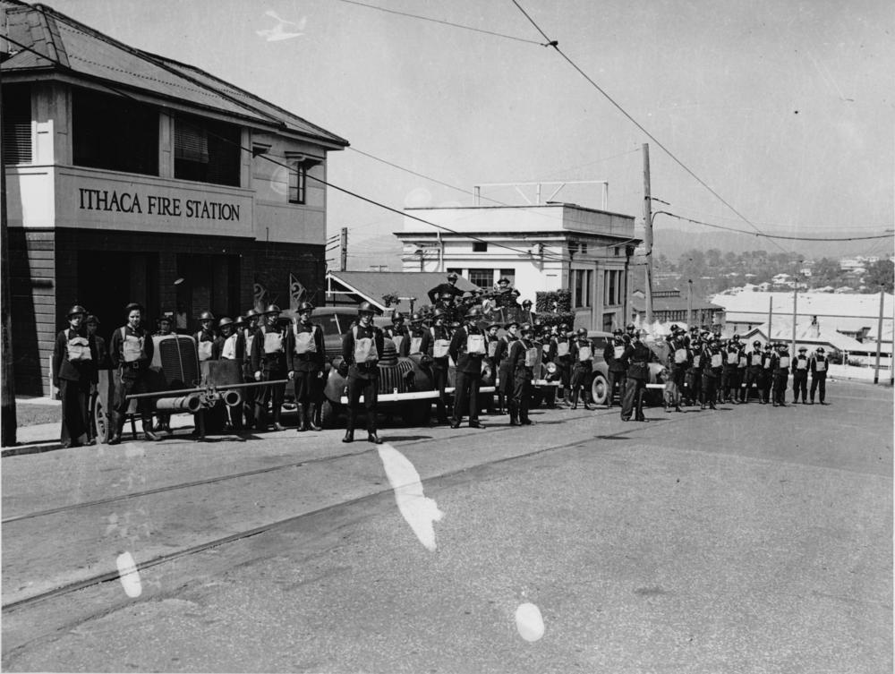 Ithaca Fire Station in Enoggera Terrace, Paddington, Brisbane, ca. 1942 Wartime fire units outside the Ithaca Fire Station. The white building just downhill from the fire station is the Paddington tramway electrical substation and the large white shed at the bottom of the hill is the Paddington tram depot which was destroyed by fire in 1962.